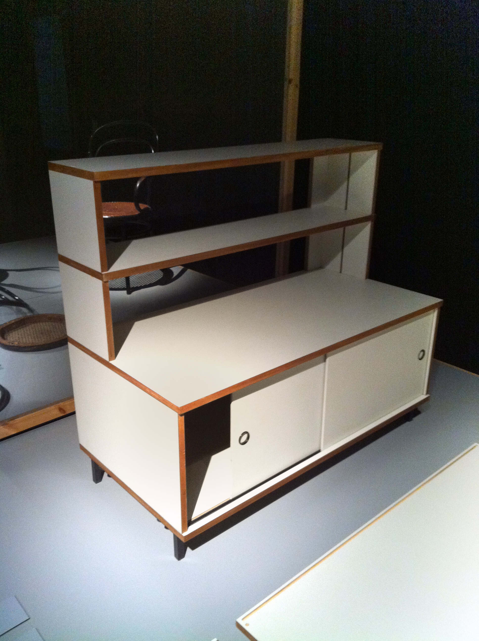 Systems Design - The Ulm school. Exhibit at Disseny Hub Barcelona - DHUB, Hans Gugelot, Furniture System M125, 1956